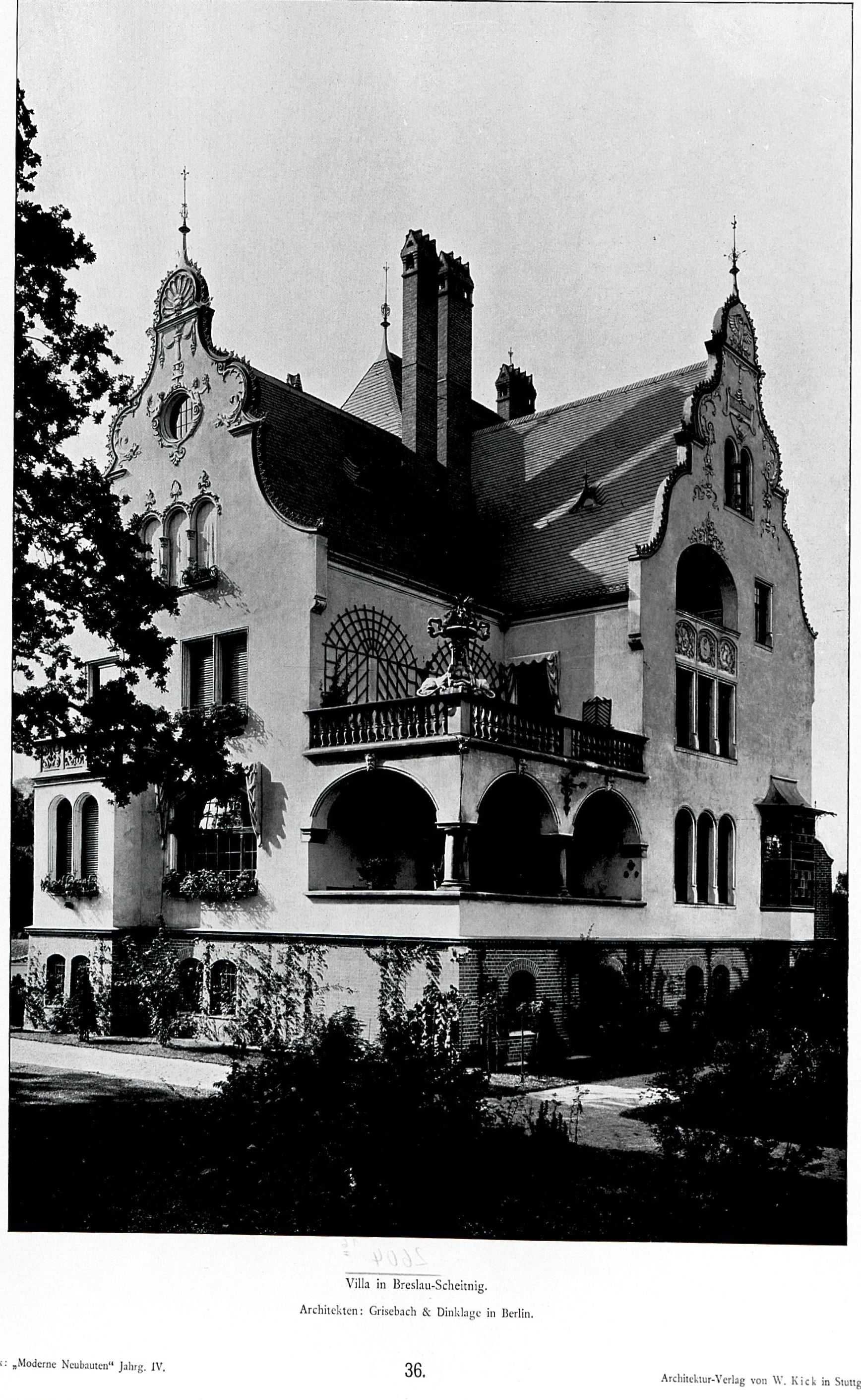 Villa in Wrocław